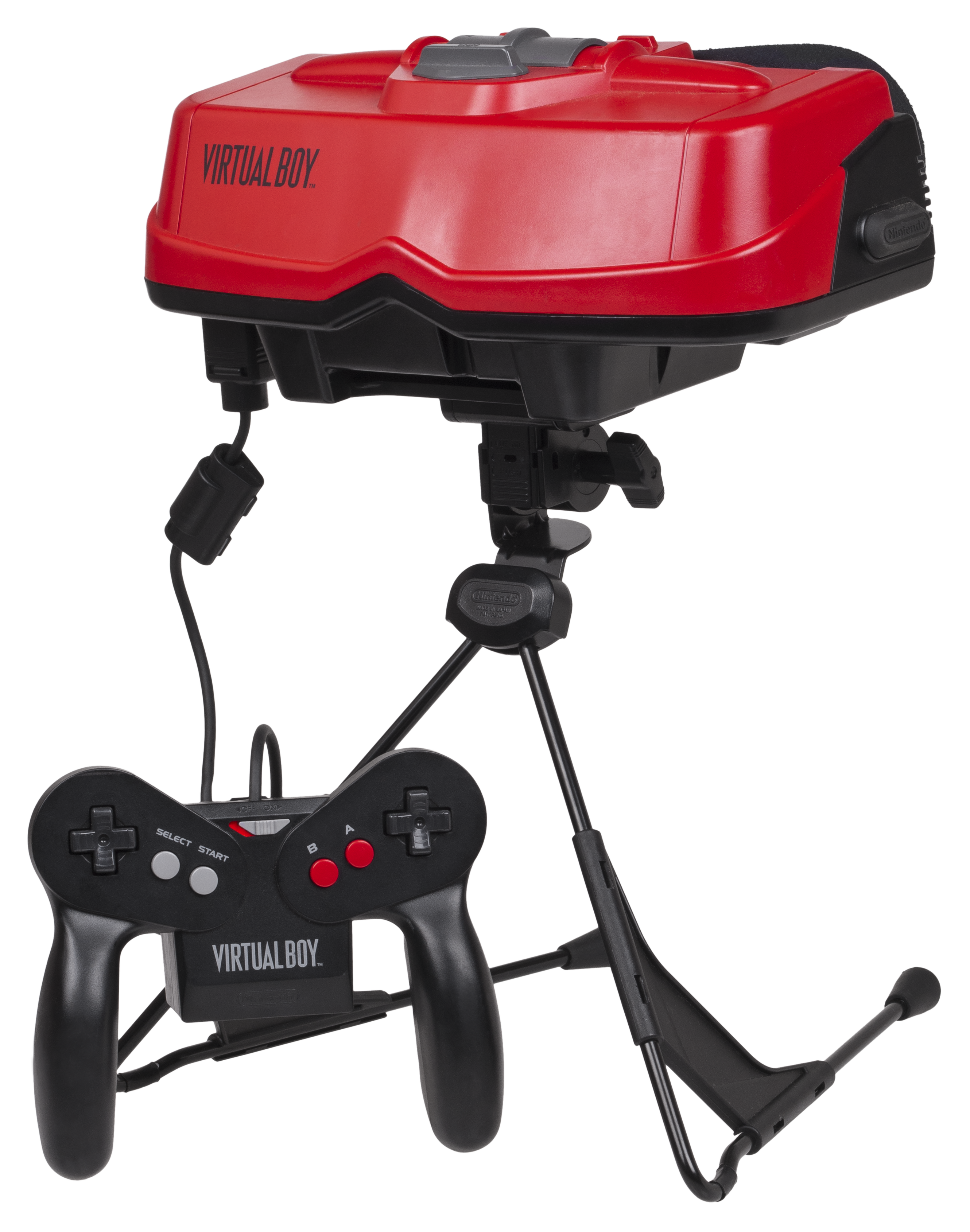 A North American Virtual Boy game console, made by Nintendo. A system that let you see in 3-D by use of individual red and black LCD screens for each eye. The system was a commercial failure for Nintendo.